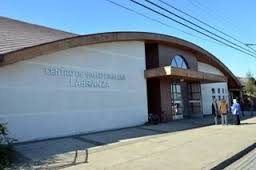 Labranza Family Health Center.